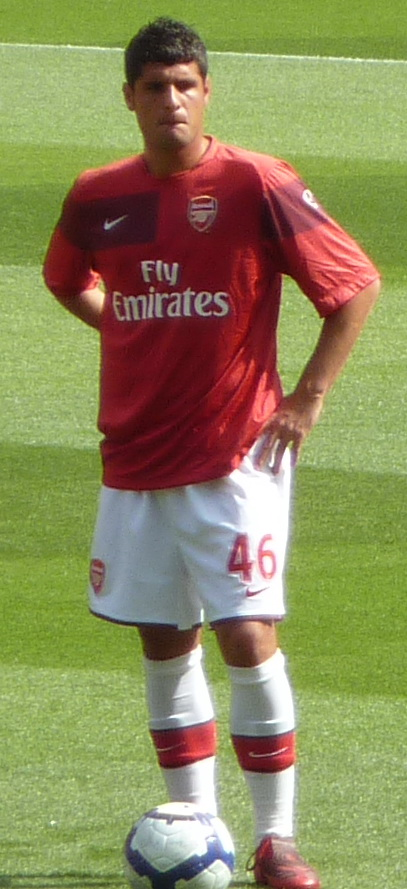 Fran Mérida is a Spanish footballer.